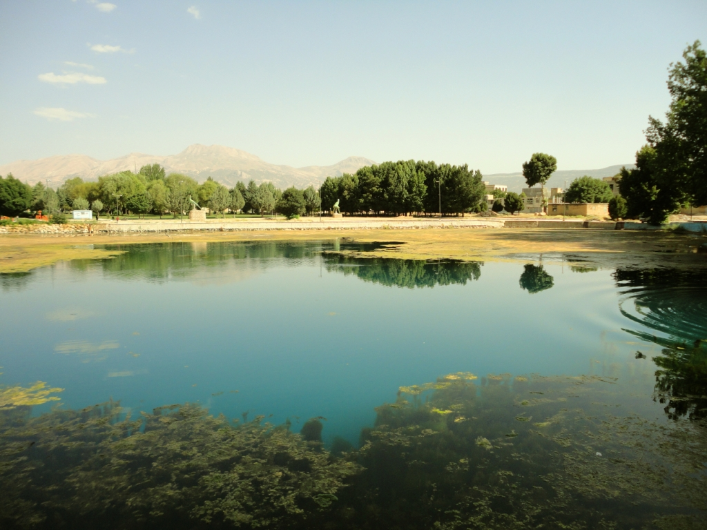 Lordegan